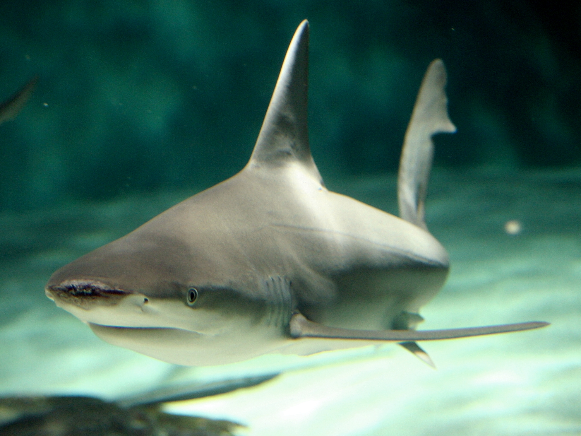 Sandbar shark (Carcharhinus plumbeus) in the Gulf of Mexico exhibit at the Aquarium of Americas in New Orleans.